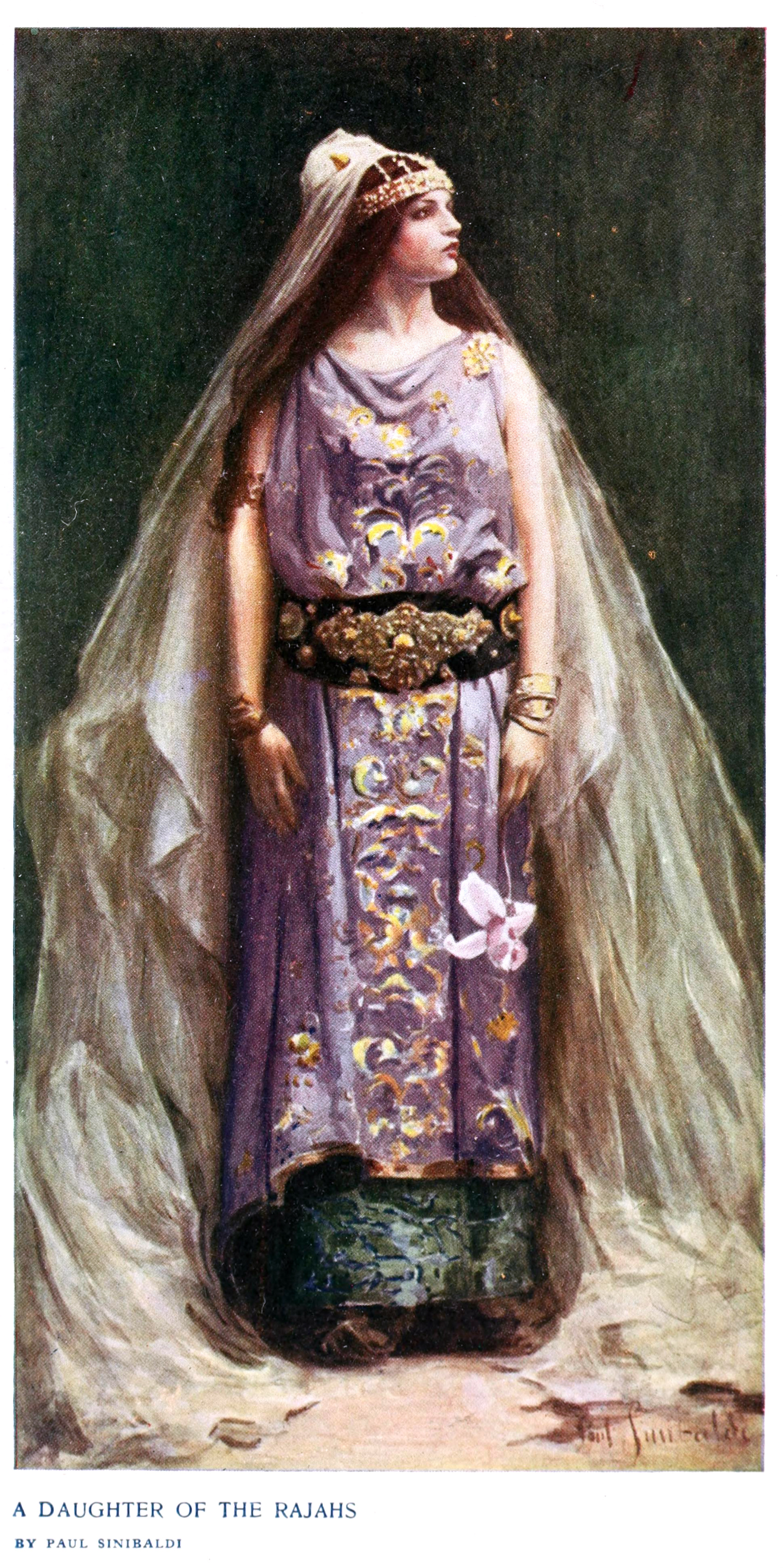 Fille des Rajahs, or A Daughter of the Rajahs, from a painting by Jean-Paul Sinibaldi